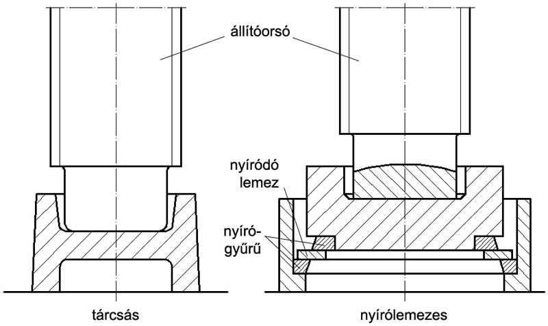 Examples in breaker blocks